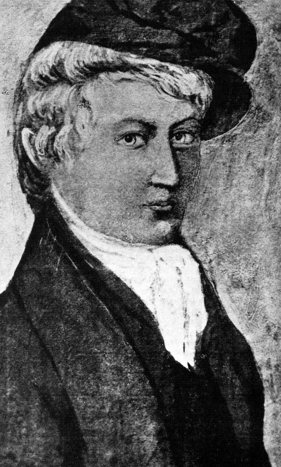 Norwegian poet Henrik Wergeland, drawn at age of 16,5 by his father, the reverend and constitution father Nicolai Wergeland